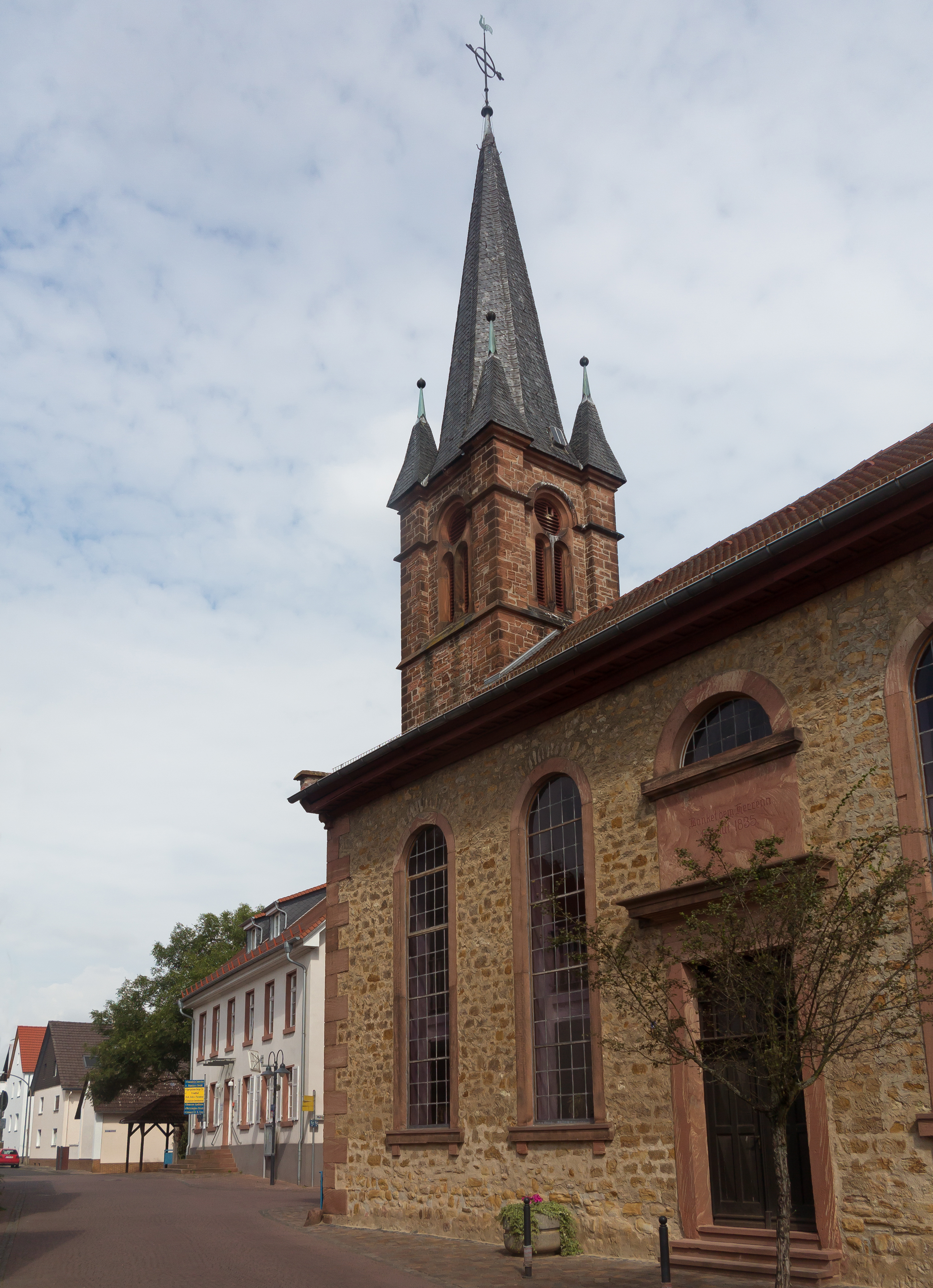 Niederdorfelden, reformed church